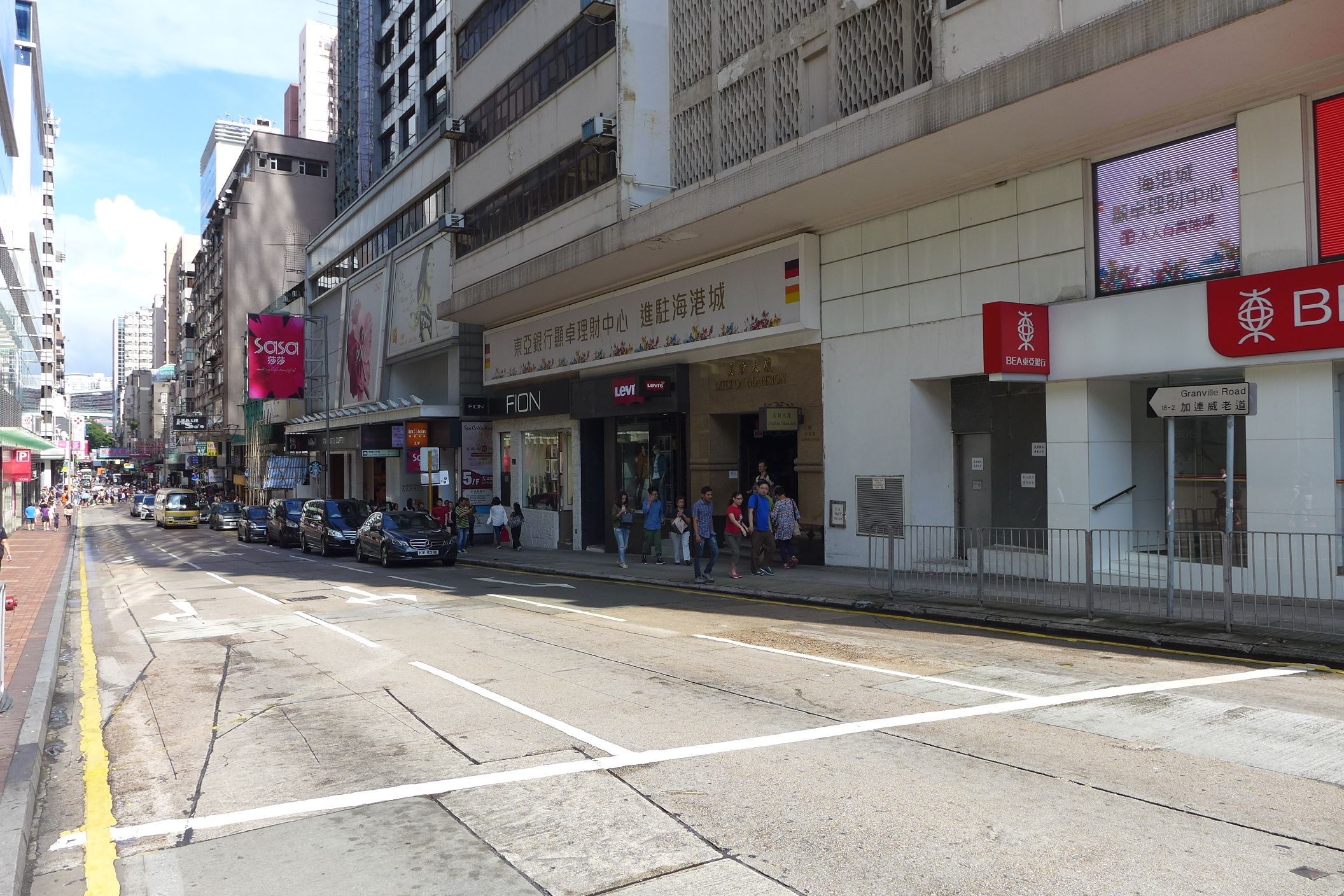 Carnarvon Road